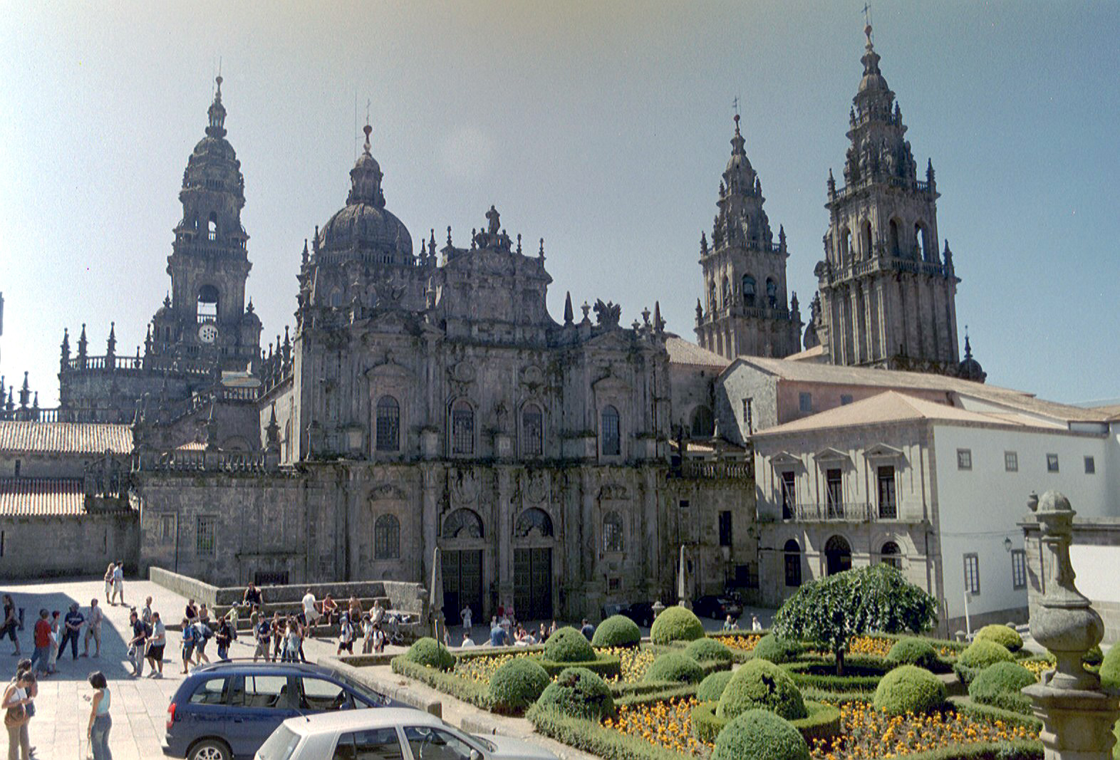 Square on the side of the Cathedral in Santiago de Compostela (Spain)